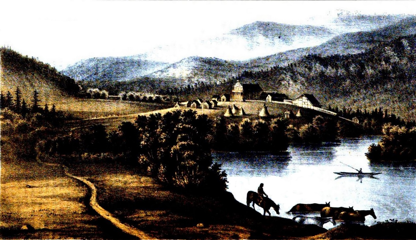 Coeur d'Alene Mission of the Sacred Heart on Lake Coeur d'Alene in Idaho, United States, about 1855. Gustavus Sohon, artist. Located where the Coeur d'Alene River enters into Lake Coeur d'Alene, the mission was established in 1843 by the Roman Catholic Church as a Christian missionary outpost. The church was built in 1858, and designed by Father Antonio Ravalli. No nails or metal pieces were used in its construction. The mission later relocated near the modern town of De Smet, Idaho, at which time this location became known as "Cataldo Mission" or "Old Mission". The structure and outbuildings were added to the U.S. National Register of Historic Places on October 15, 1966. The structure and outbuildings were made a U.S. National Historic Landmark on July 4, 1961.